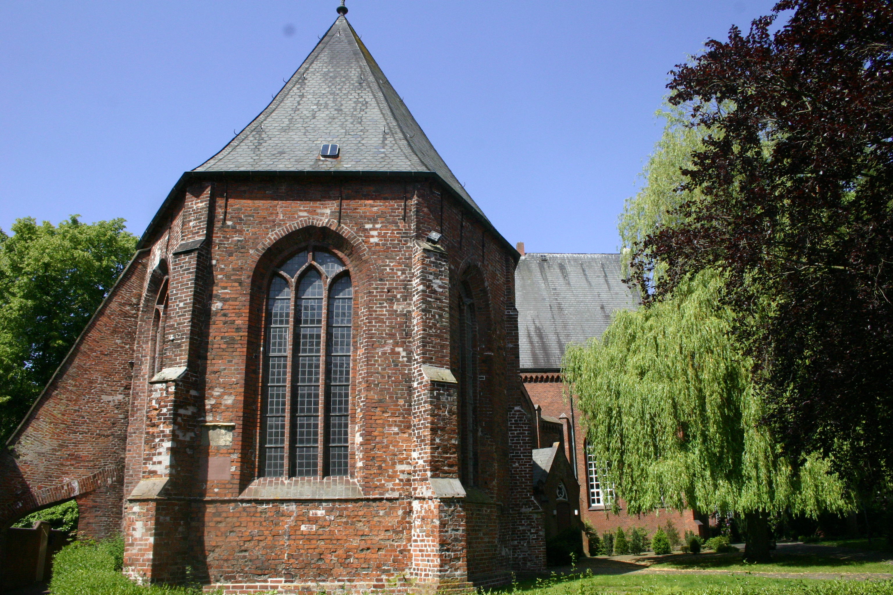 Historic church (ref.) in Weener, district of Leer, East Frisia, Germany